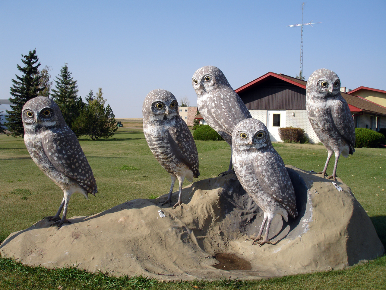 Sculpture of burrowing owls in the town of Leader, Saskatchewan, Canada.